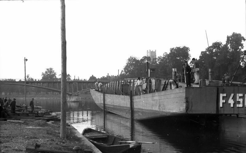 Information added by Wikimedia users.